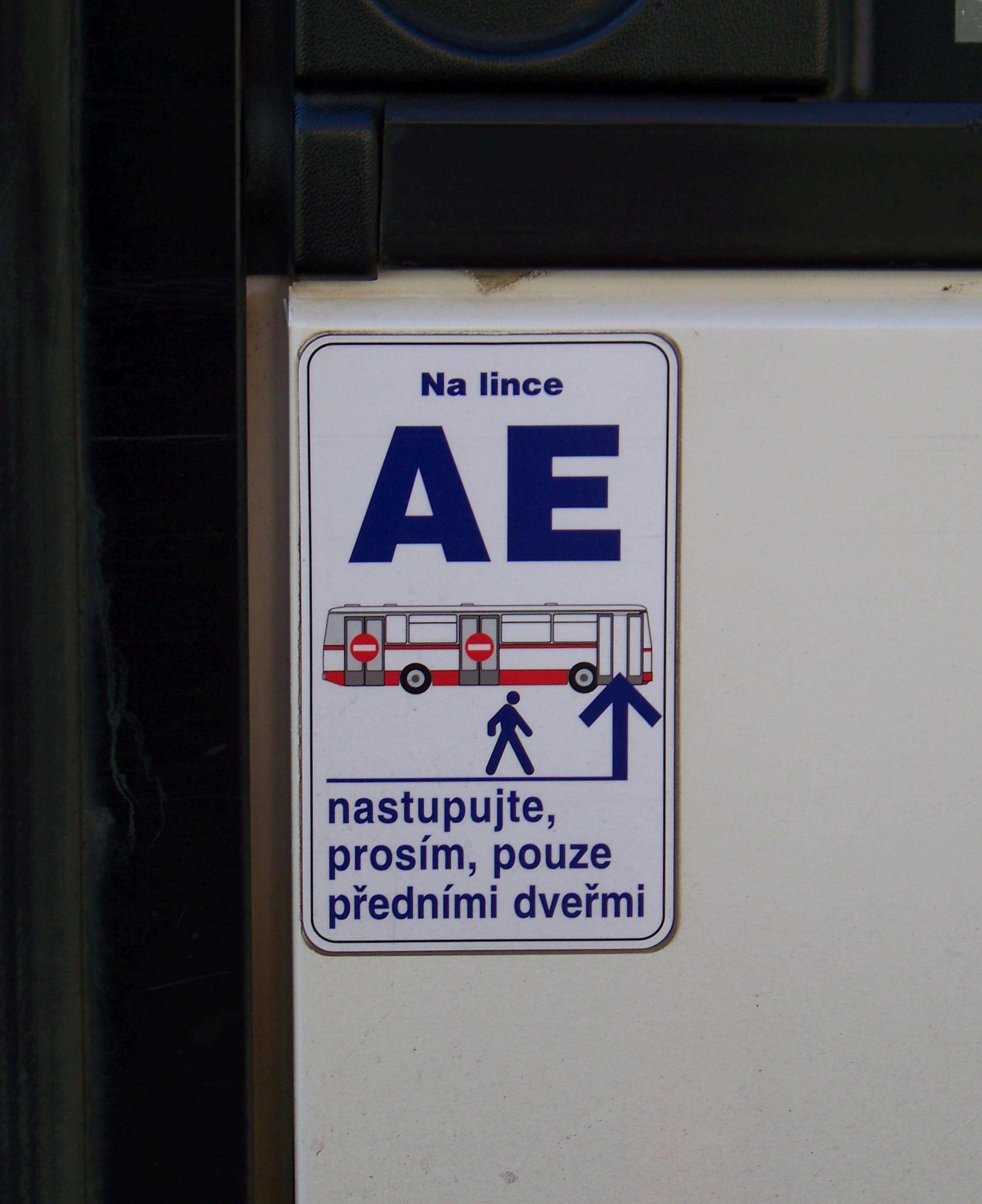 Prague-Vinohrady, Czech Republic. Wilsonova street, Praha hlavní nádraží station, a sticker (only the front door for boarding) beside the door of Airport Express bus.